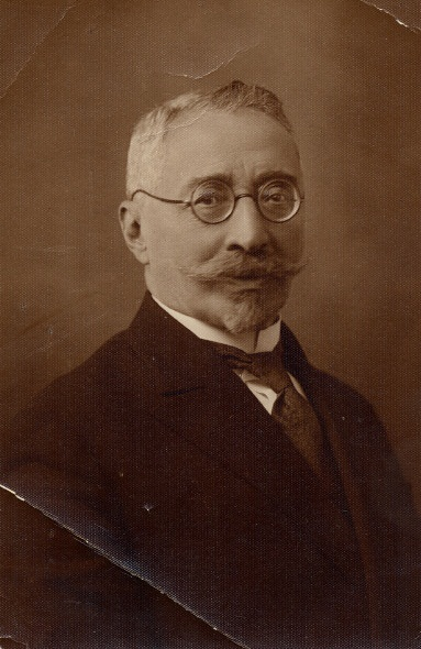 ד"ר יעקב ויגודסקי, רופא, סופר ואיש ציבור, ממנהיגי קהילת וילנה ערב חורבנהּ